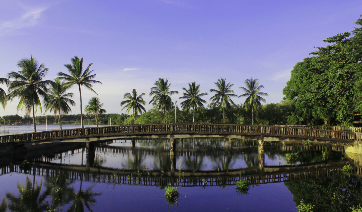 Scenic Kalantiaw Shrine Bridge in Batan, Aklan